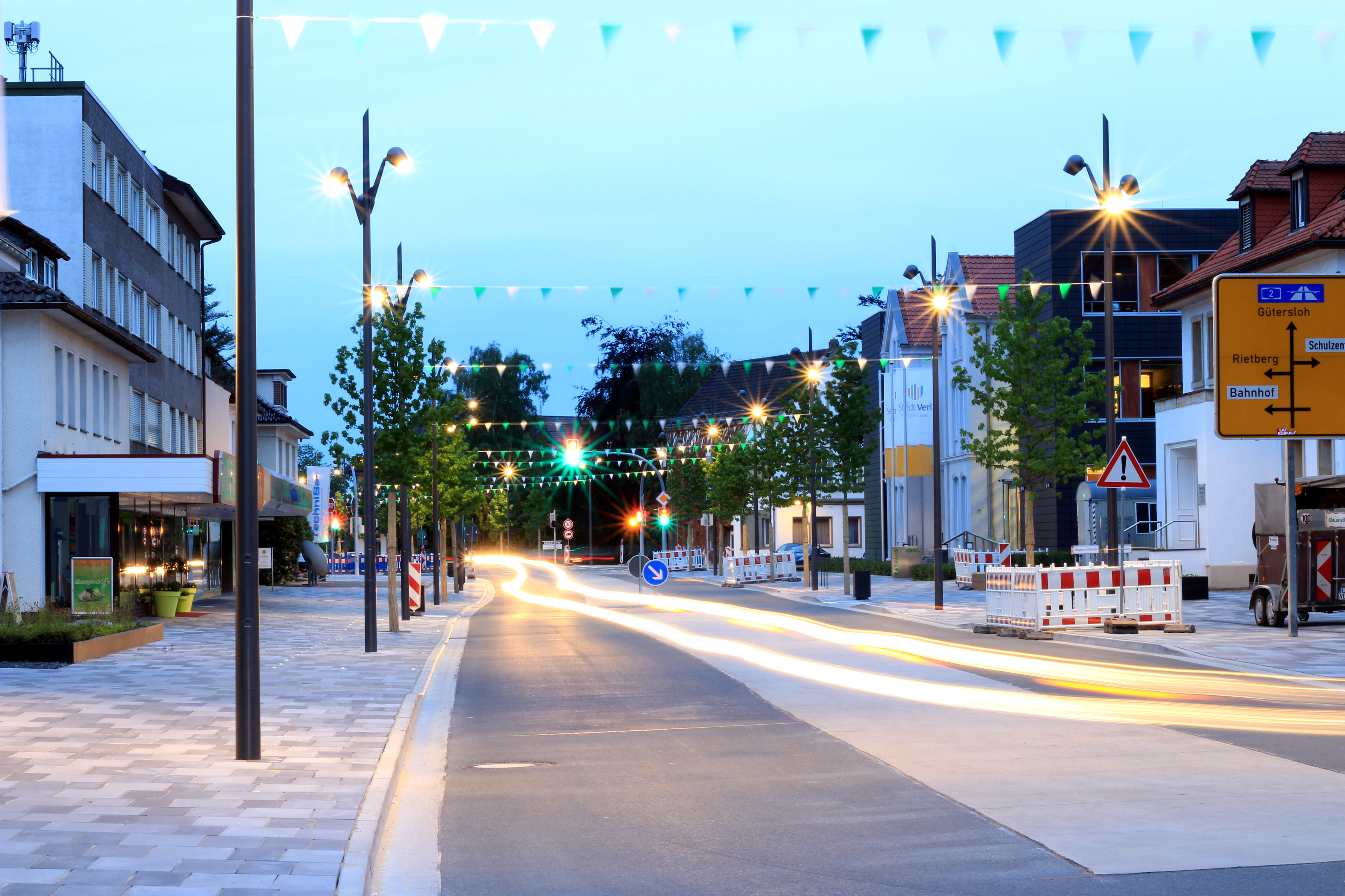 Long exposure photography of newly designed main street of Verl, Germany early in the morning